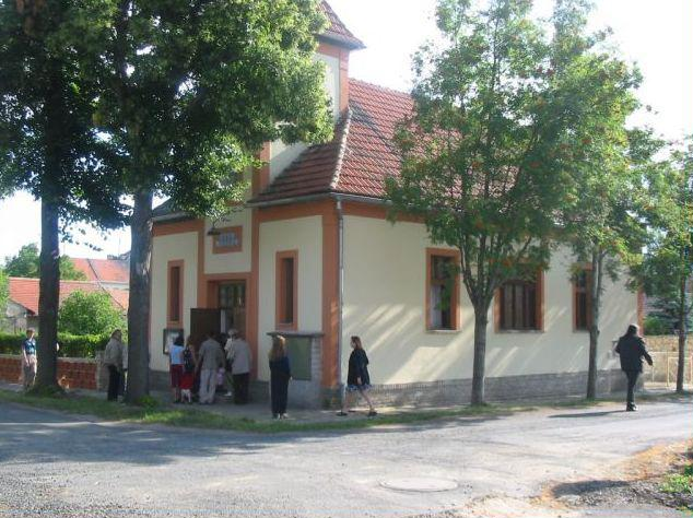 Czech Hussite Church in Perutz